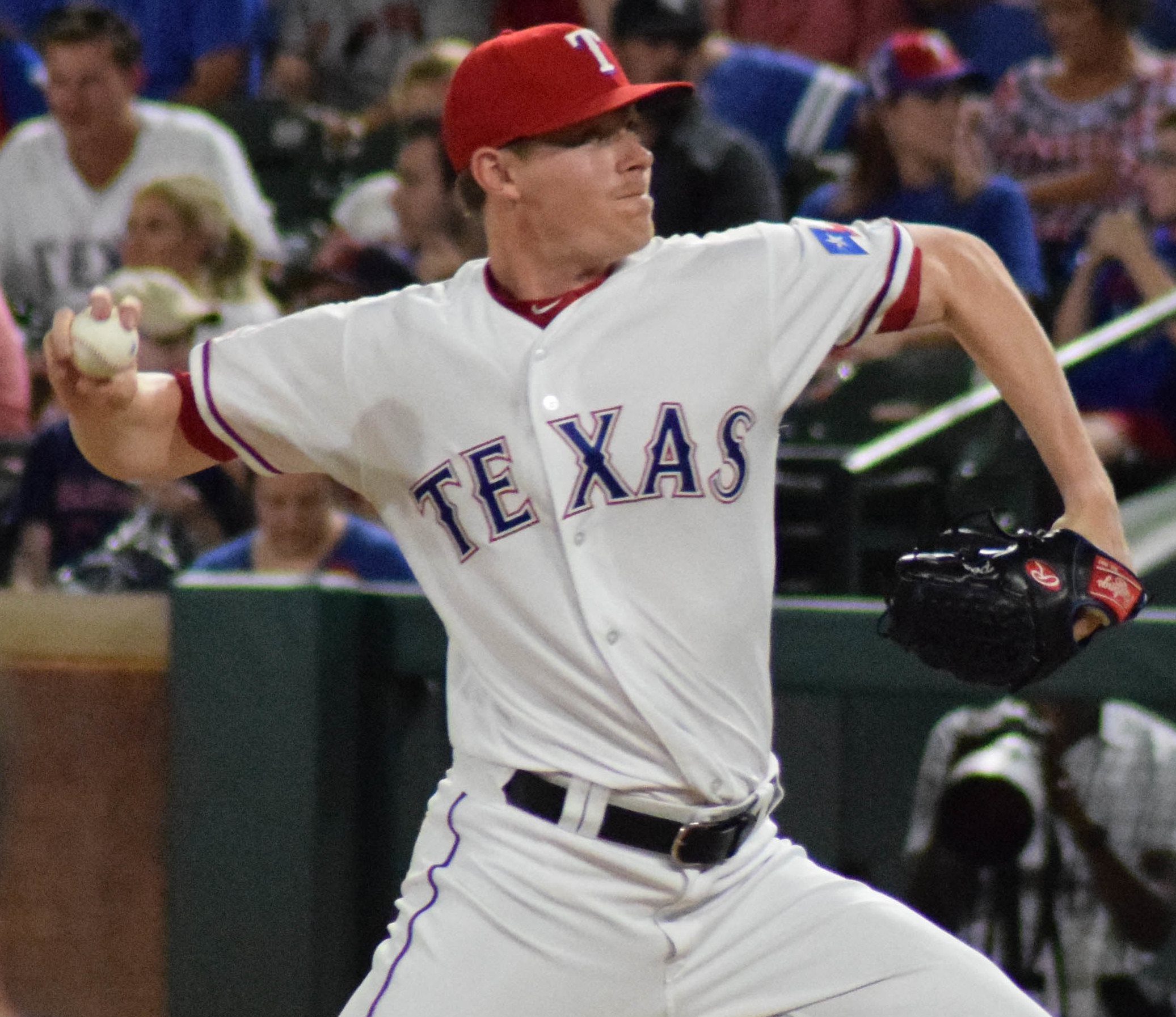 Peter Fairbanks delivers a pitch for the Texas Rangers during a 2019 game in Arlington, Texas